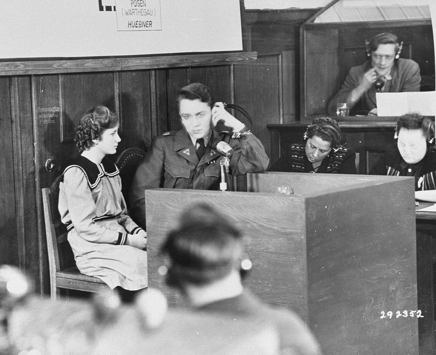 She was a survivor of the Lidice massacre